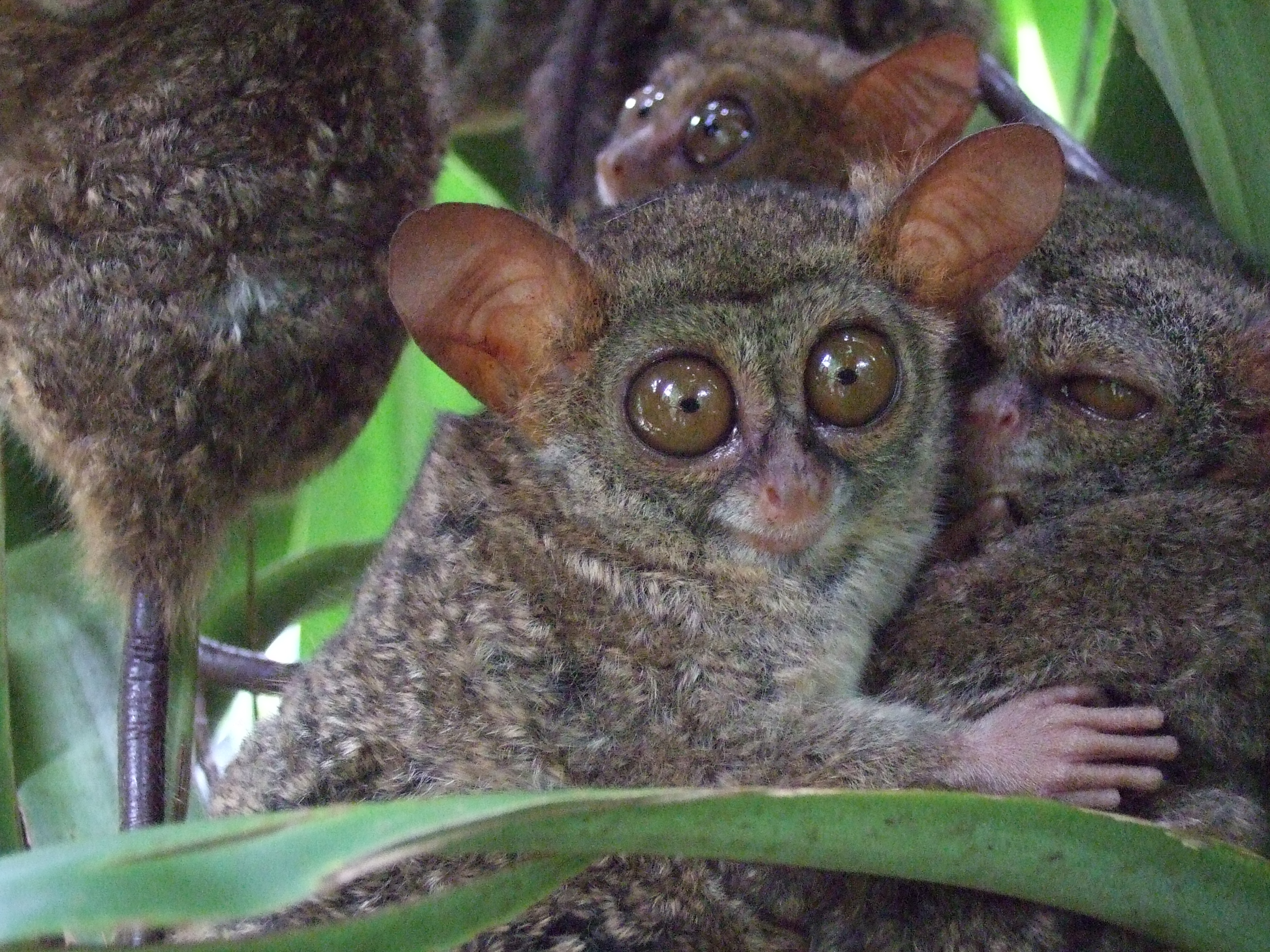 Tarsier Tarsius sp., Grand Naemundung Mini Zoo, Tandurusa, Bitung, North Sulawesi Geography suggests this is not the Spectral Tarsier (Tarsius tarsier), but an undescribed species called Tarsius sp. 1 by Shekelle and Groves (2010). Reference: Groves, C.; Shekelle, M. (2010). "The Genera and Species of Tarsiidae" (PDF). International Journal of Primatology.